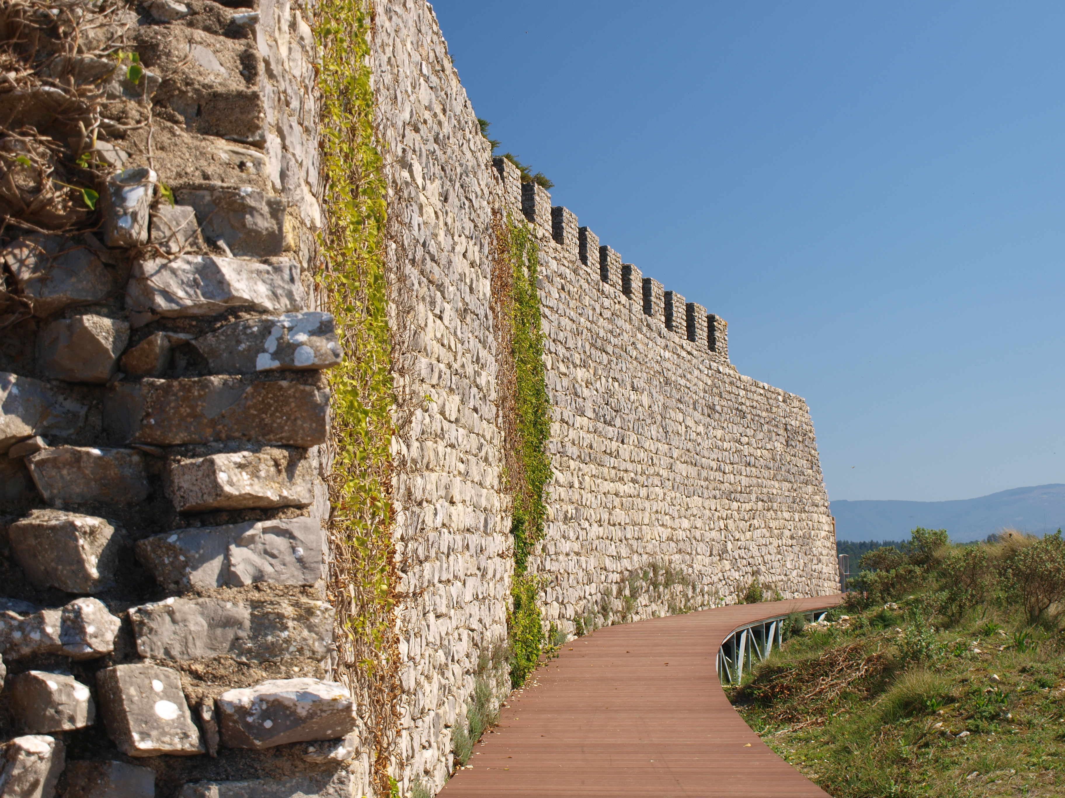 Walls of the Castle of Germanelo, Rabaçal, Penela, Coimbra, Portugal.